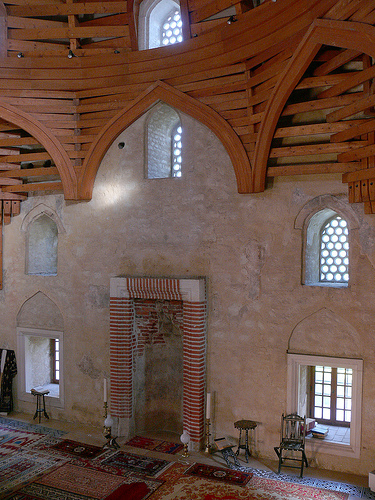 Enterieur of Malkoç Bey Mosque in Siklós, Hungary